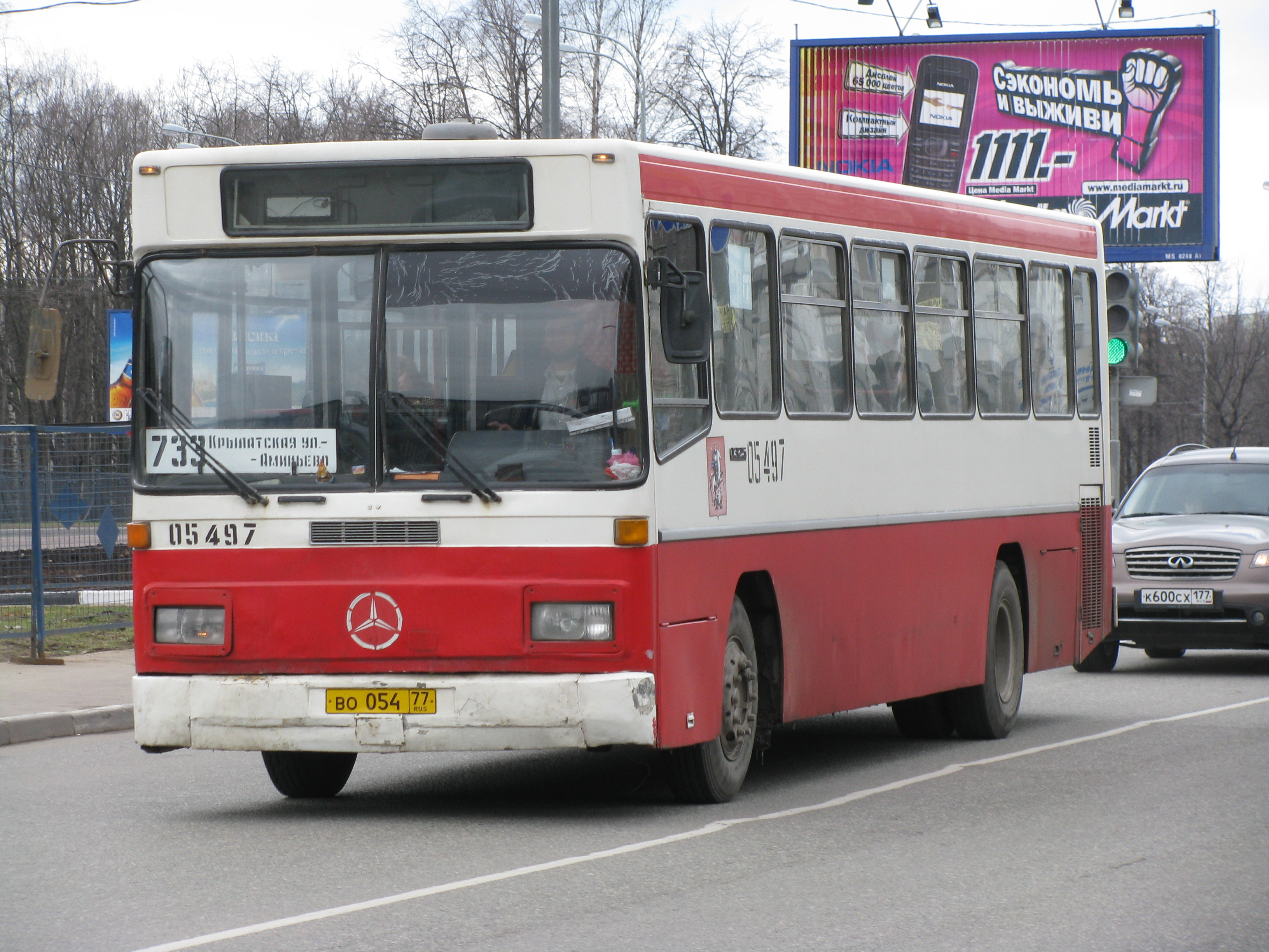 Mercedes-Benz O 325 in Moscow